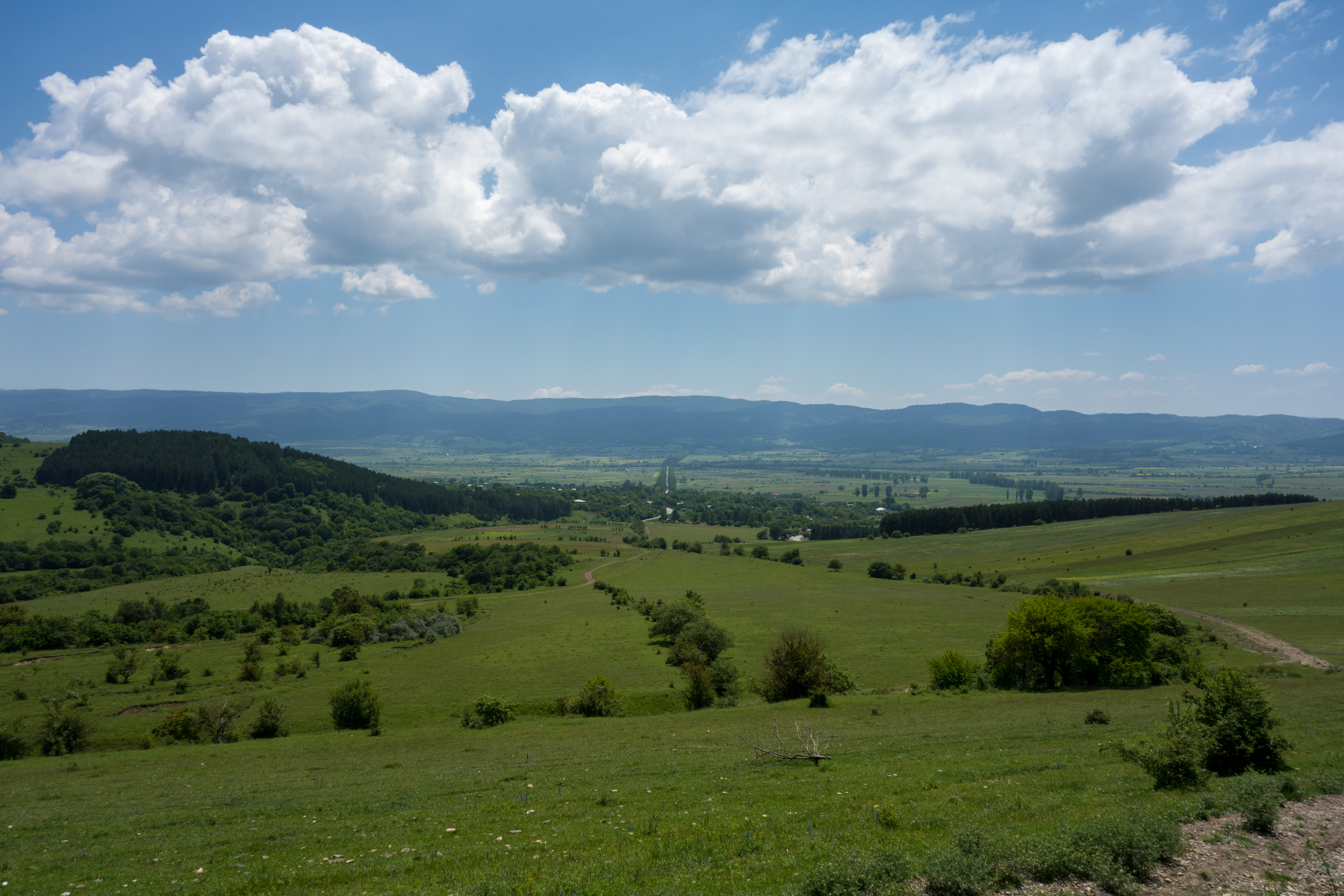 Ertso Basin (view from the north), Mtskheta-Mtianeti, Georgia